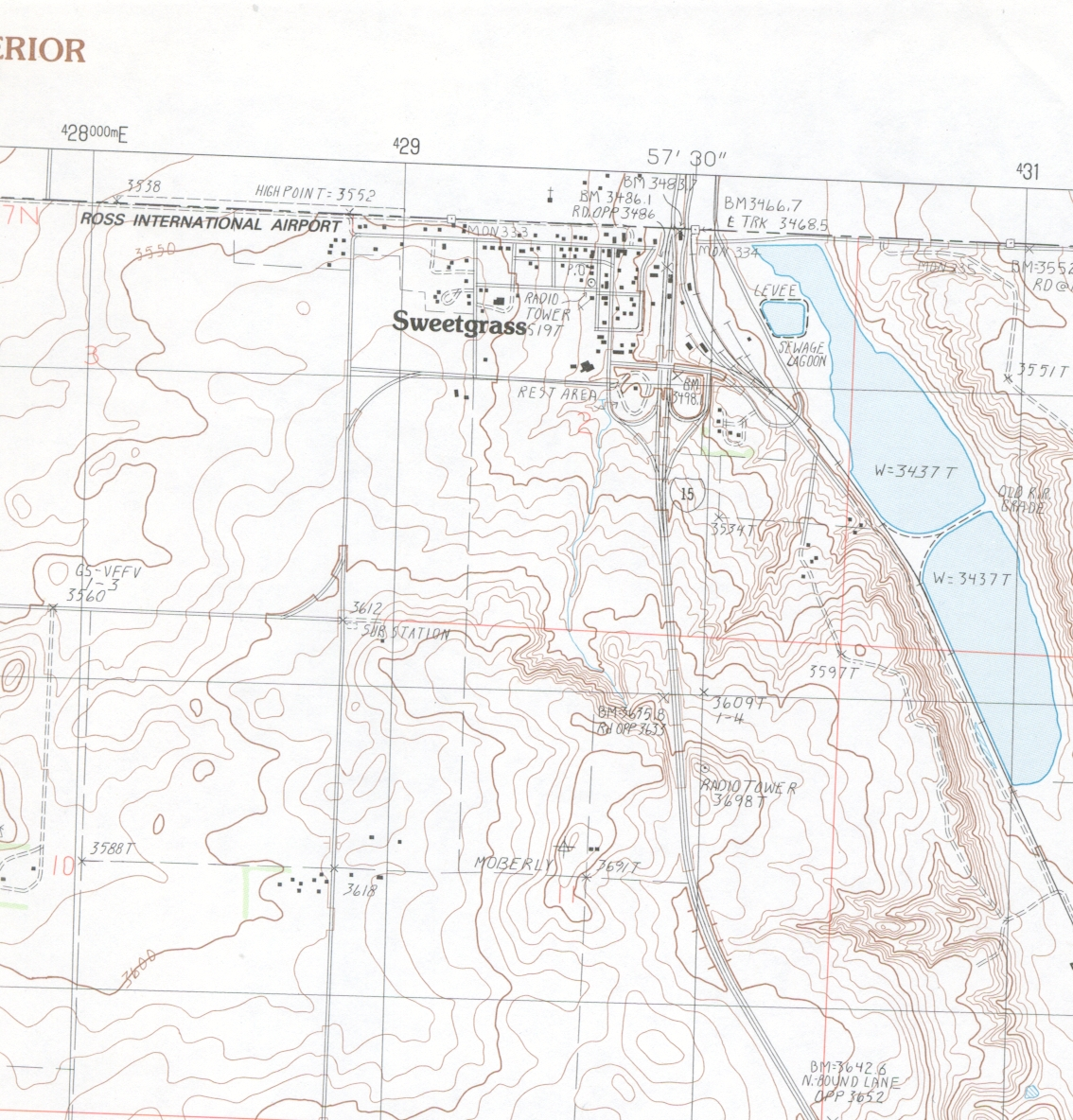 Sweet Grass portion of the Sunburst quadrangle.